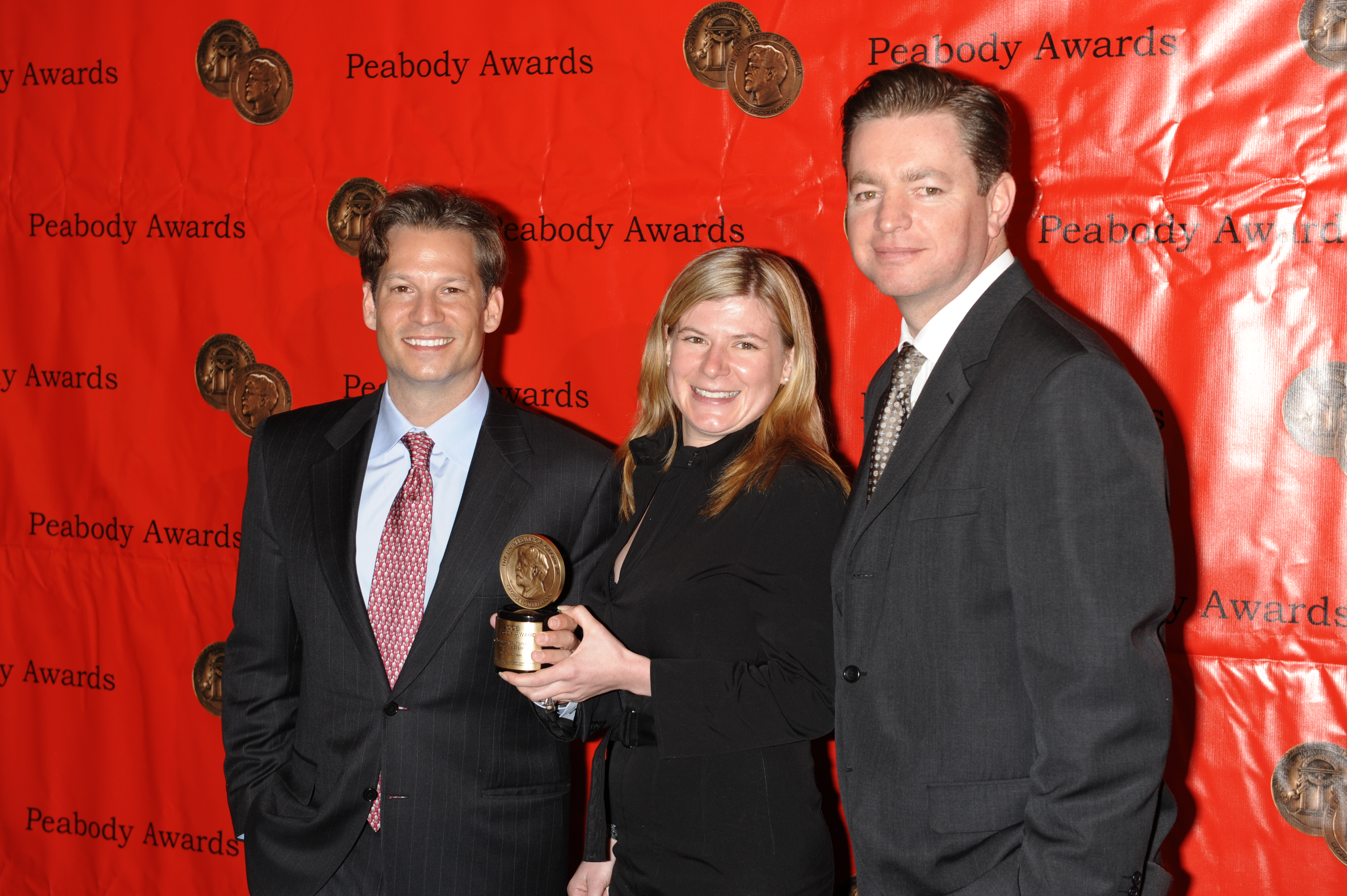 PHOTO CREDIT: ANDERS KRUSBERG / PEABODY AWARDS Richard Engel, Madeleine Haeringer and Bredun Edwards 68th Annual Peabody Awards Luncheon Waldorf=Astoria Hotel New York, NY USA May 18, 2009